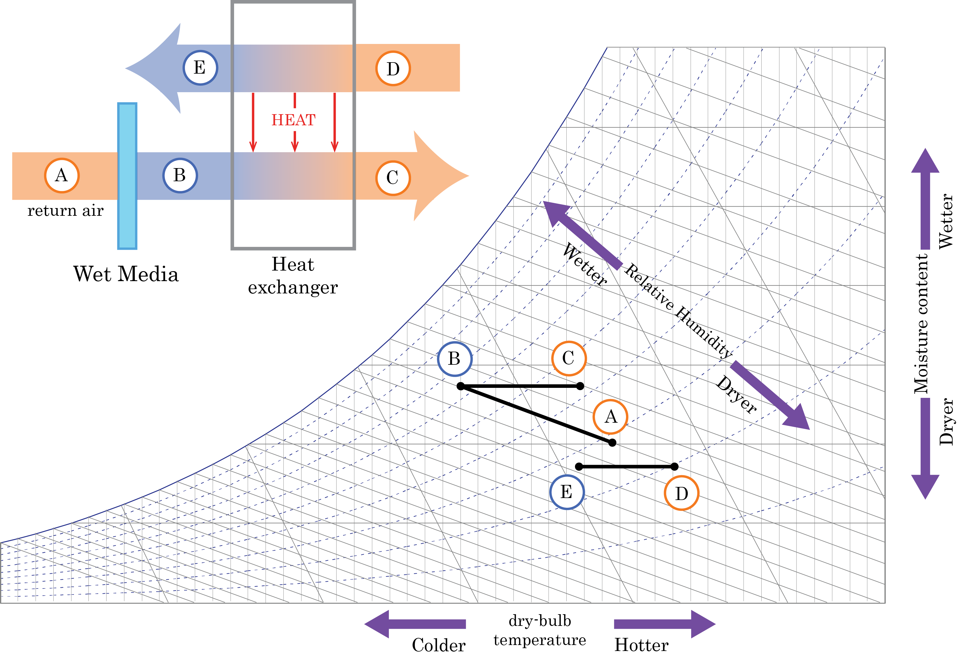 The figure describes the process of indirect evaporative cooling with the changes in temperature, moisture content and relative humidity of the air